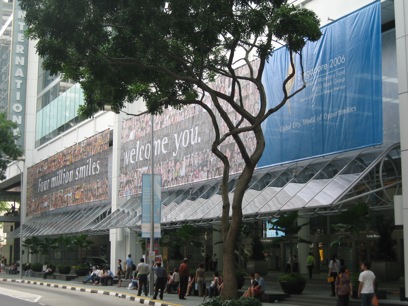 Four Million Smiles banner outside Suntec Singapore International Convention and Exhibition Centre during Singapore 2006.